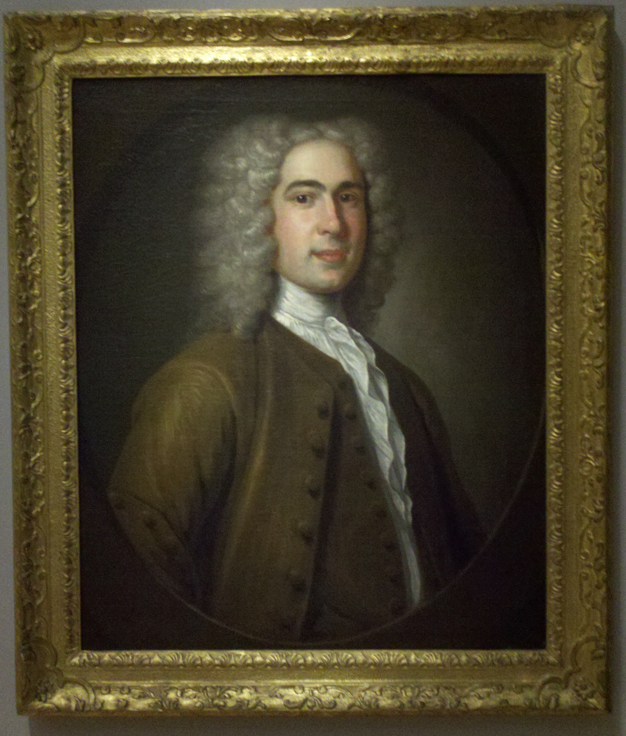 A 1730 portrait of Boston merchant Thomas Hancock by John Smibert, in the Museum of Fine Arts in Boston